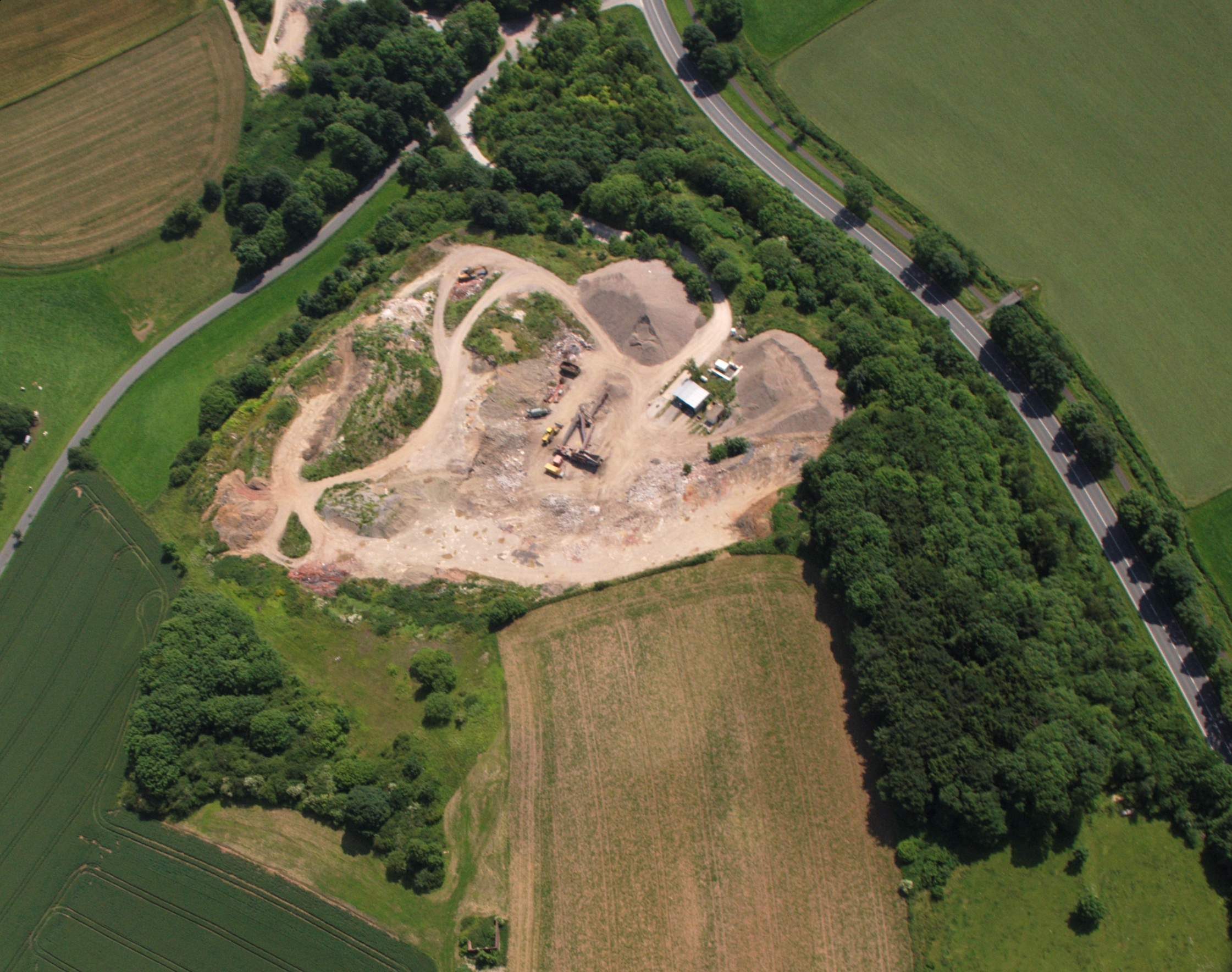 Fotoflug Sauerland-Ost, Landschaftsschutzgebiet Magergrünlandkomplex südlich Wülfte, Deponie und B 430 The making of this document was supported by the Community-Budget of Wikimedia Germany.